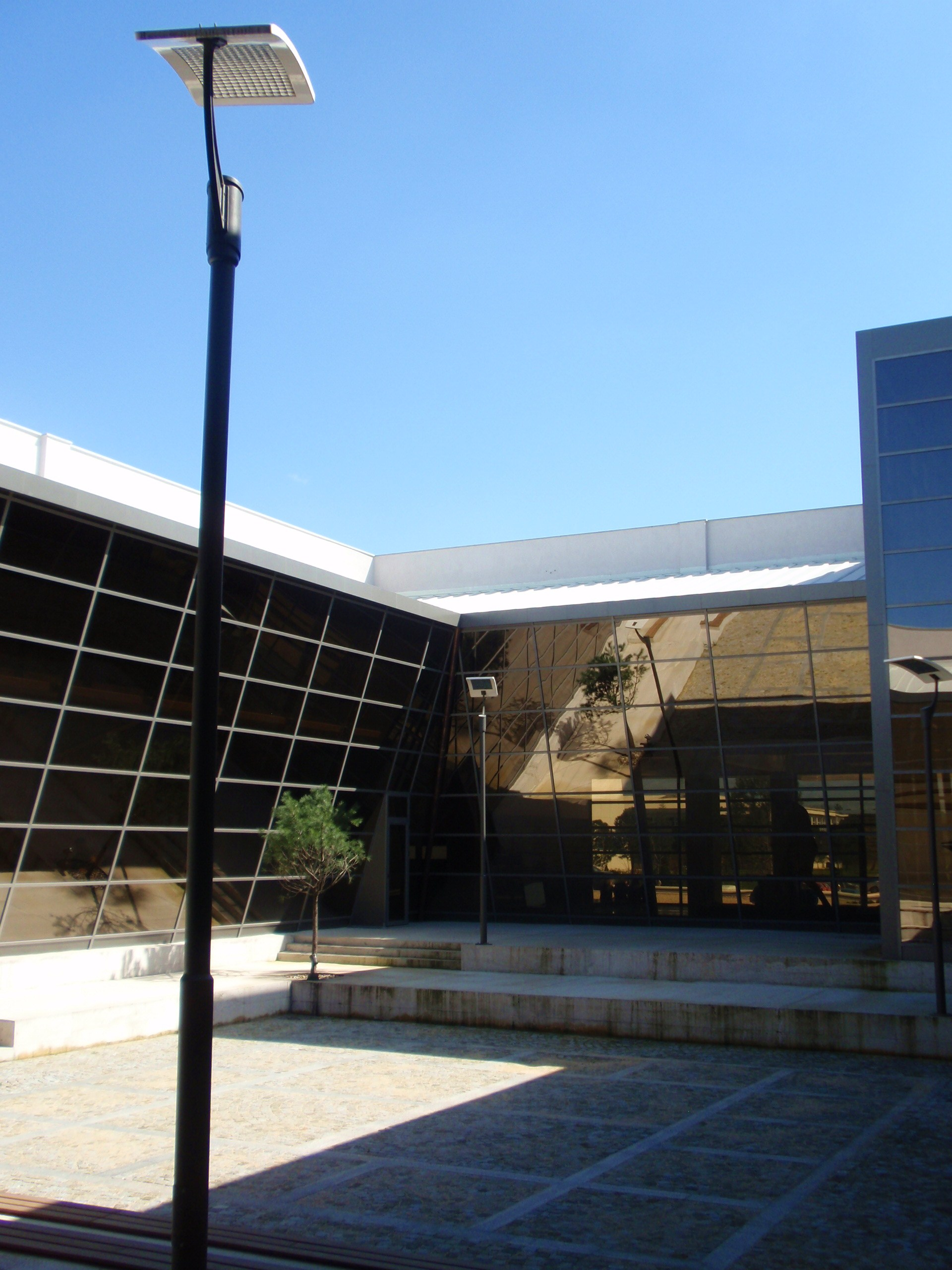 Machine Engineering Building, Uludağ University